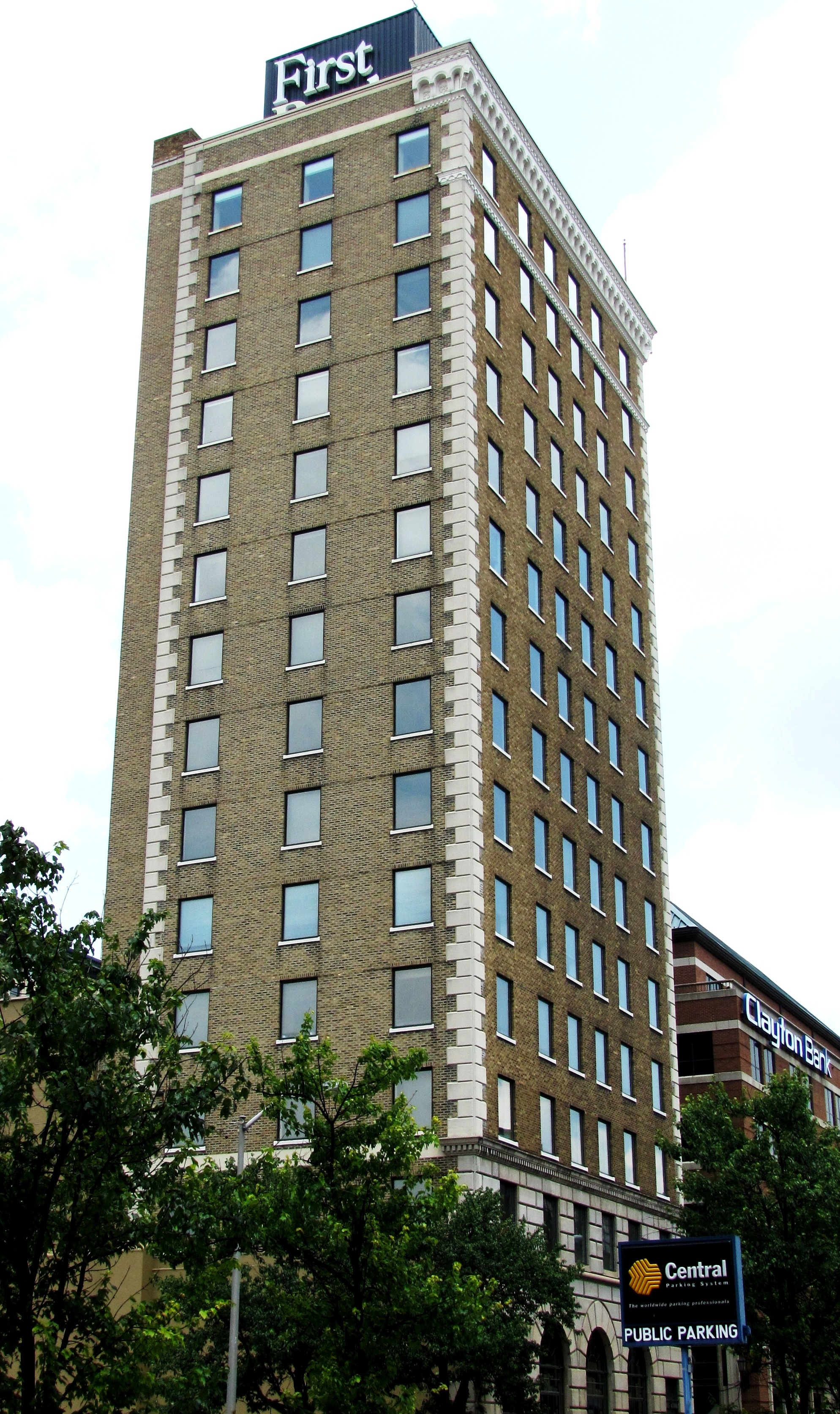 The General Building (625 Market St.), now occupied by First Bank, in Knoxville, Tennessee, USA. Built in 1926 and designed by Barber & McMurry, this high-rise is now listed on the National Register of Historic Places.